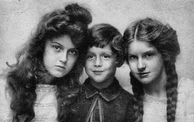 The three Manzel children around 1910: (from right) Edit Manzel-Heinemann (Edit von Coler), Gerhard Ludwig (Gerlu) Manzel and Alix Manzel-Heinemann. Father of the girls was the sculpturer Fritz Heinemann, the stepfather was Ludwig Manzel.